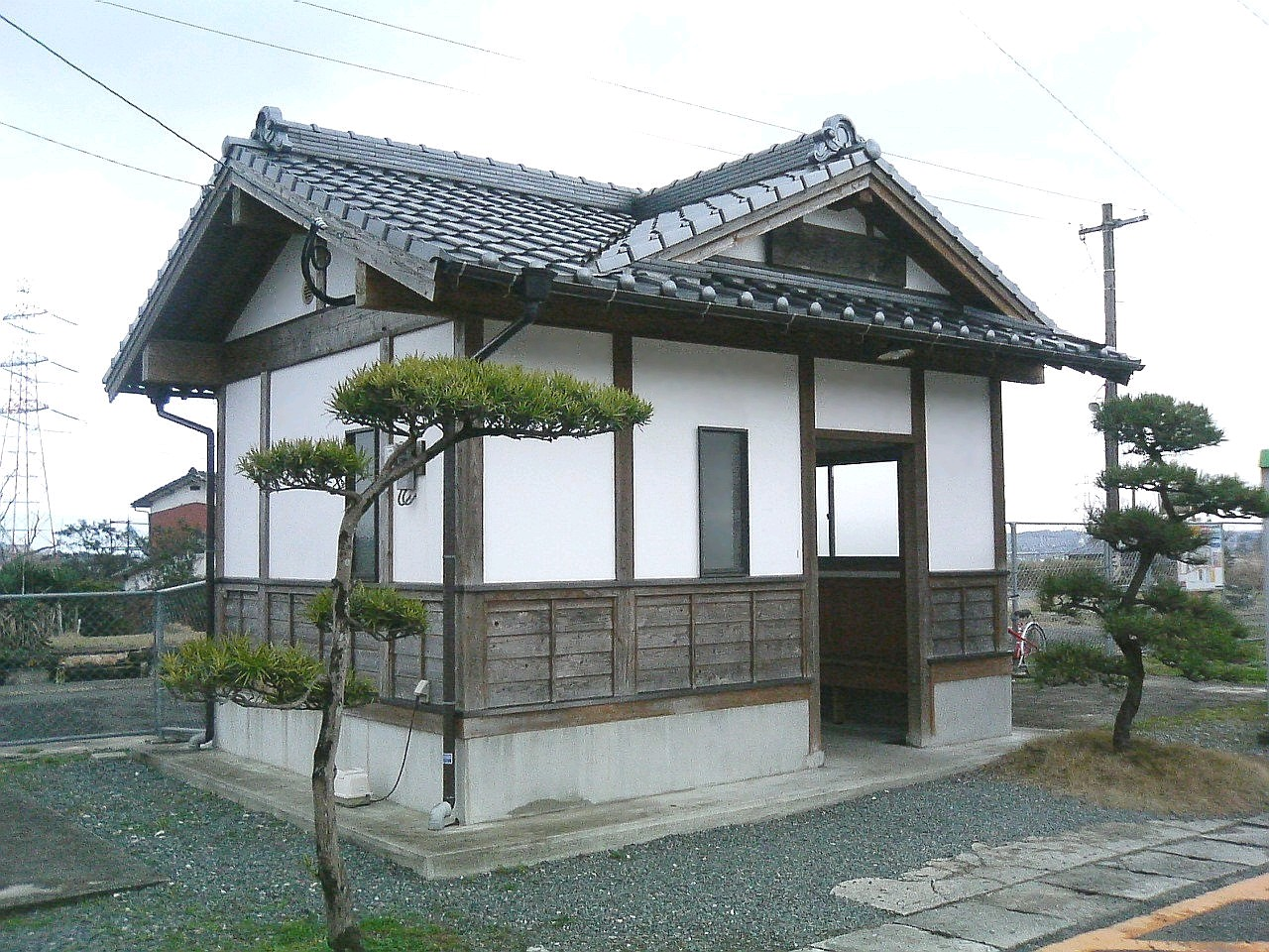 Chikuzen-Yamae Station, Chikuho Main Line, Kyushu Railway Company.